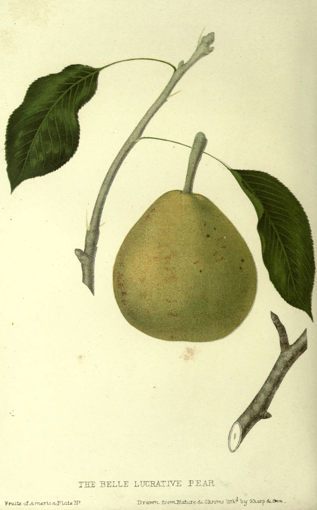 THE BELLE LUCRATIVE PEAR Fruits of Aroarlc a^Flate. N? DTO,-WTL frornJKaiure d^GJucrrru) Tttk? "by SXorp